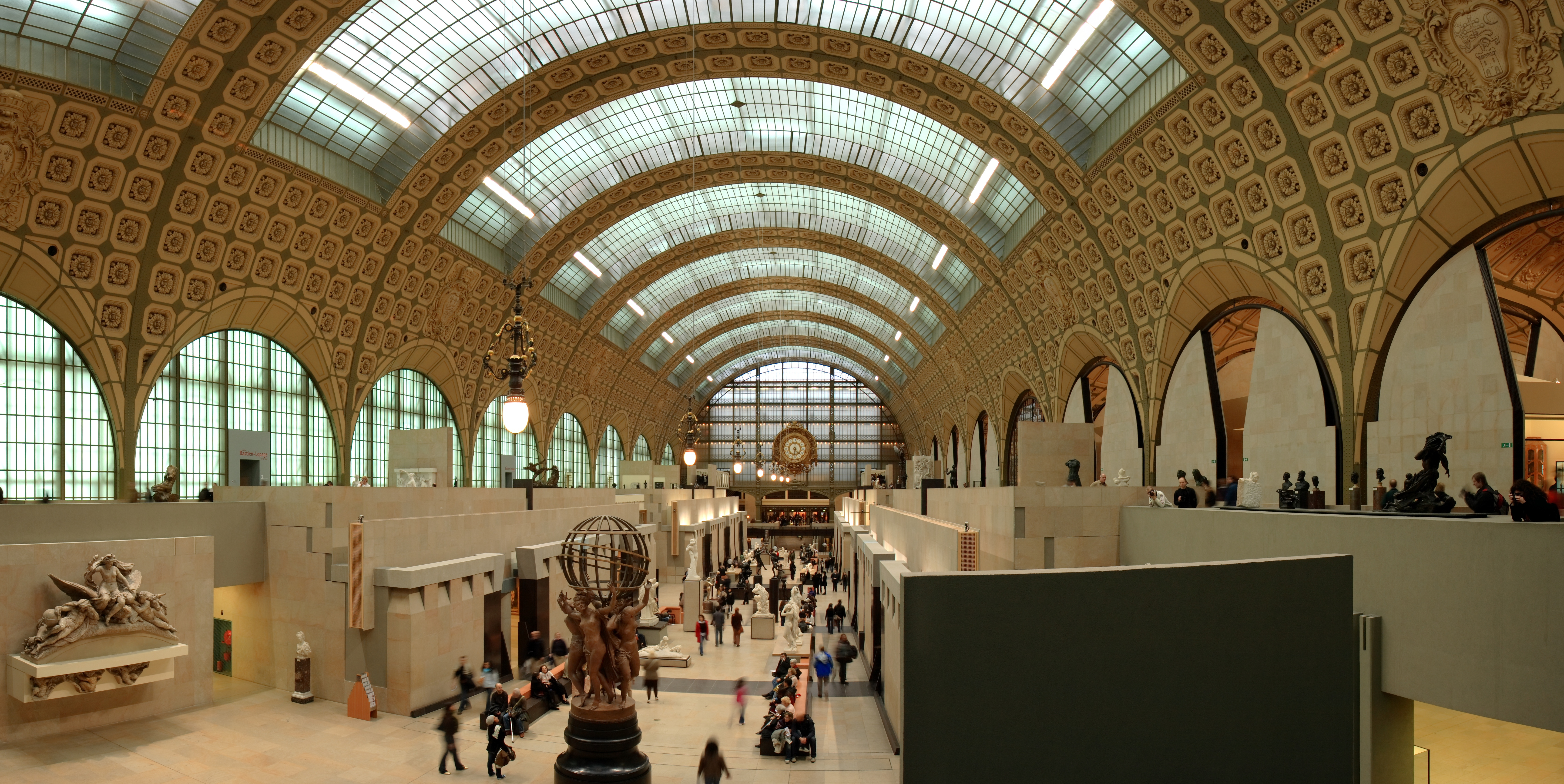 Main alley of the Orsay Museum in Paris, France.